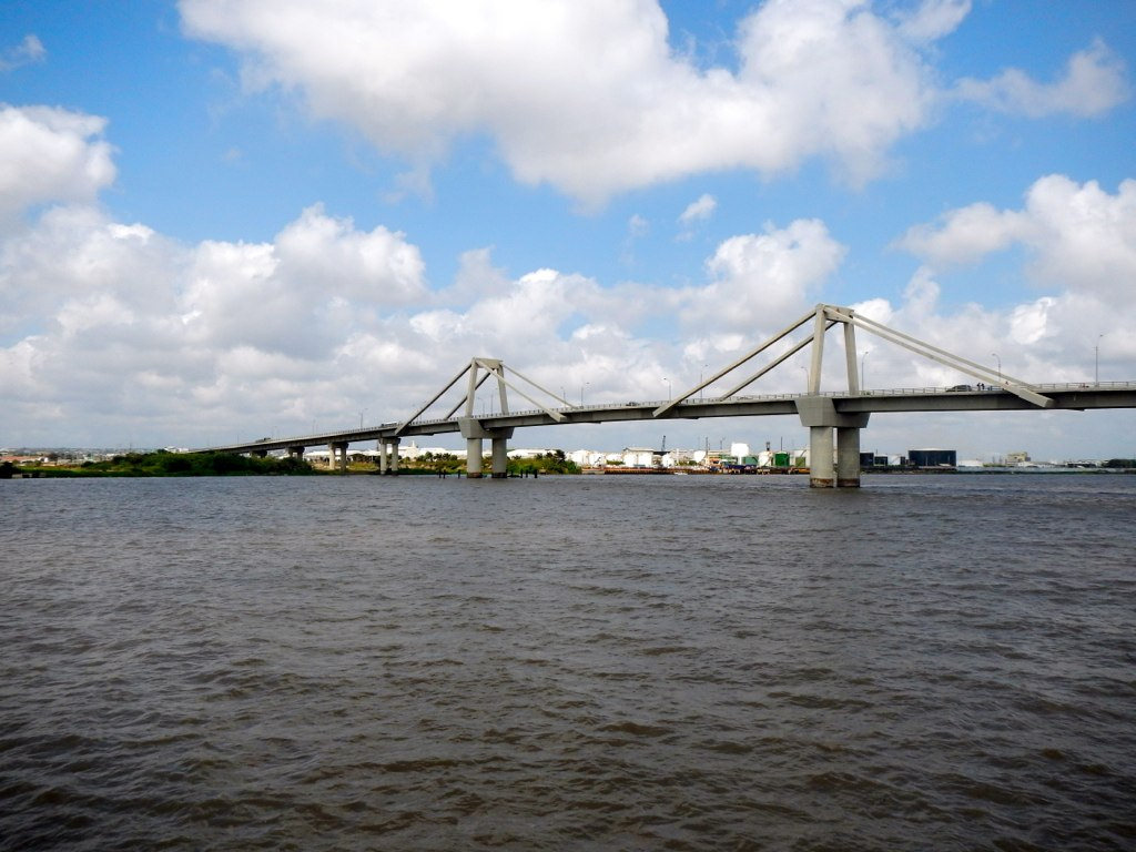 Bridge over the Magdalena River